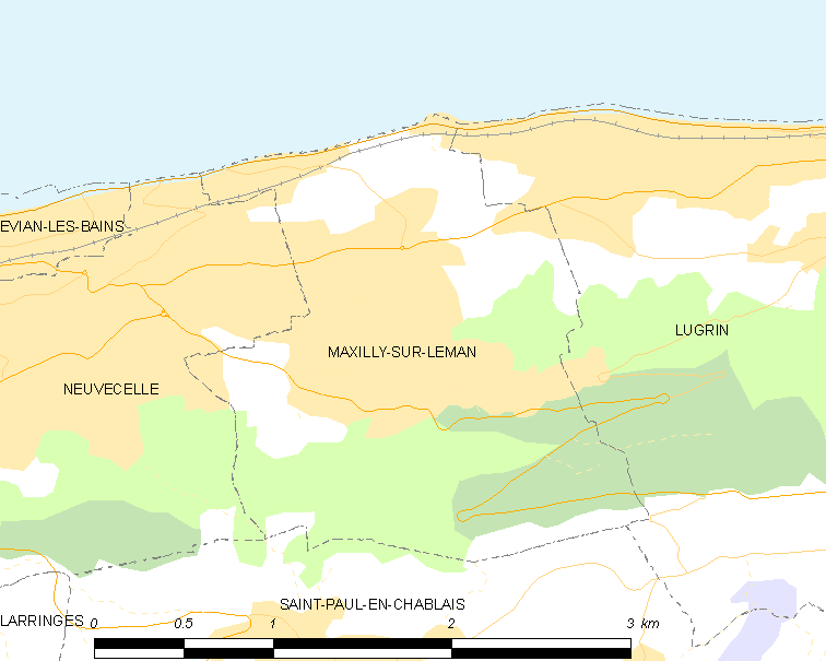 Map of French municipality Maxilly-sur-Léman